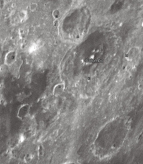 Colombo lunar crater as seen from Earth with satellite craters labeled